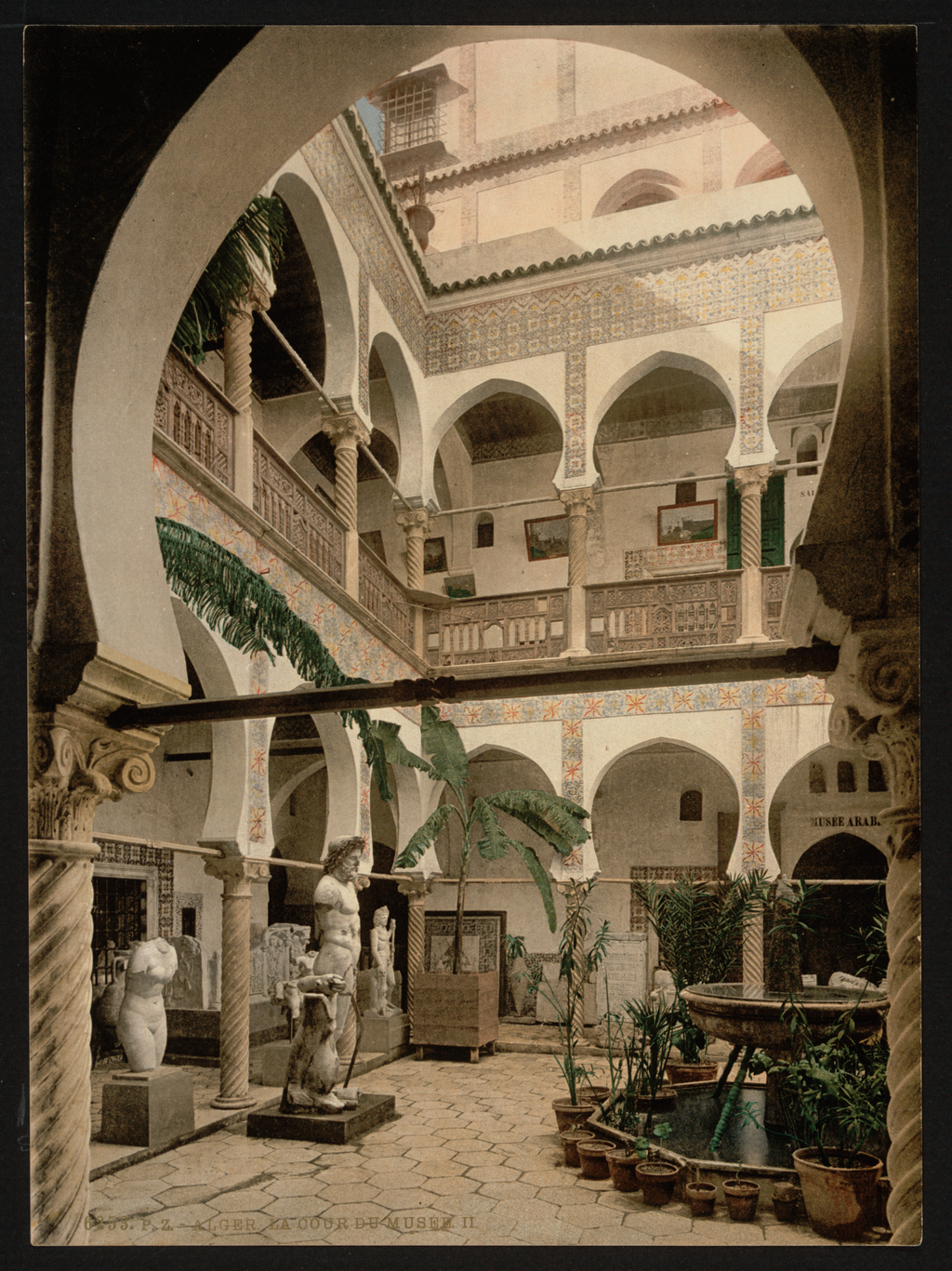 "This photochrome print of the Musée National des Antiquités Algériennes in Algiers is part of “Views of People and Sites in Algeria” from the catalog of the Detroit Publishing Company (1905). The museum, which opened in 1897, was described in the 1911 edition of Baedeker’s The Mediterranean, seaports and sea routes: Handbook for Travellers as containing “the finest collection of the kind in Algeria.” The print depicts the museum’s entrance hall, holding part of the collection of ancient columns and sculpture. The hall shows the fine decorative architectural details of the building. According to Baedeker’s, in the courtyard were 17th-century and later landscapes of Algiers and other parts of Algeria, along with “modern views of Algiers and Arabic, Jewish, and Turkish inscriptions. In the centre is a Roman mosaic from Sila, representing Scylla and marine deities.”"